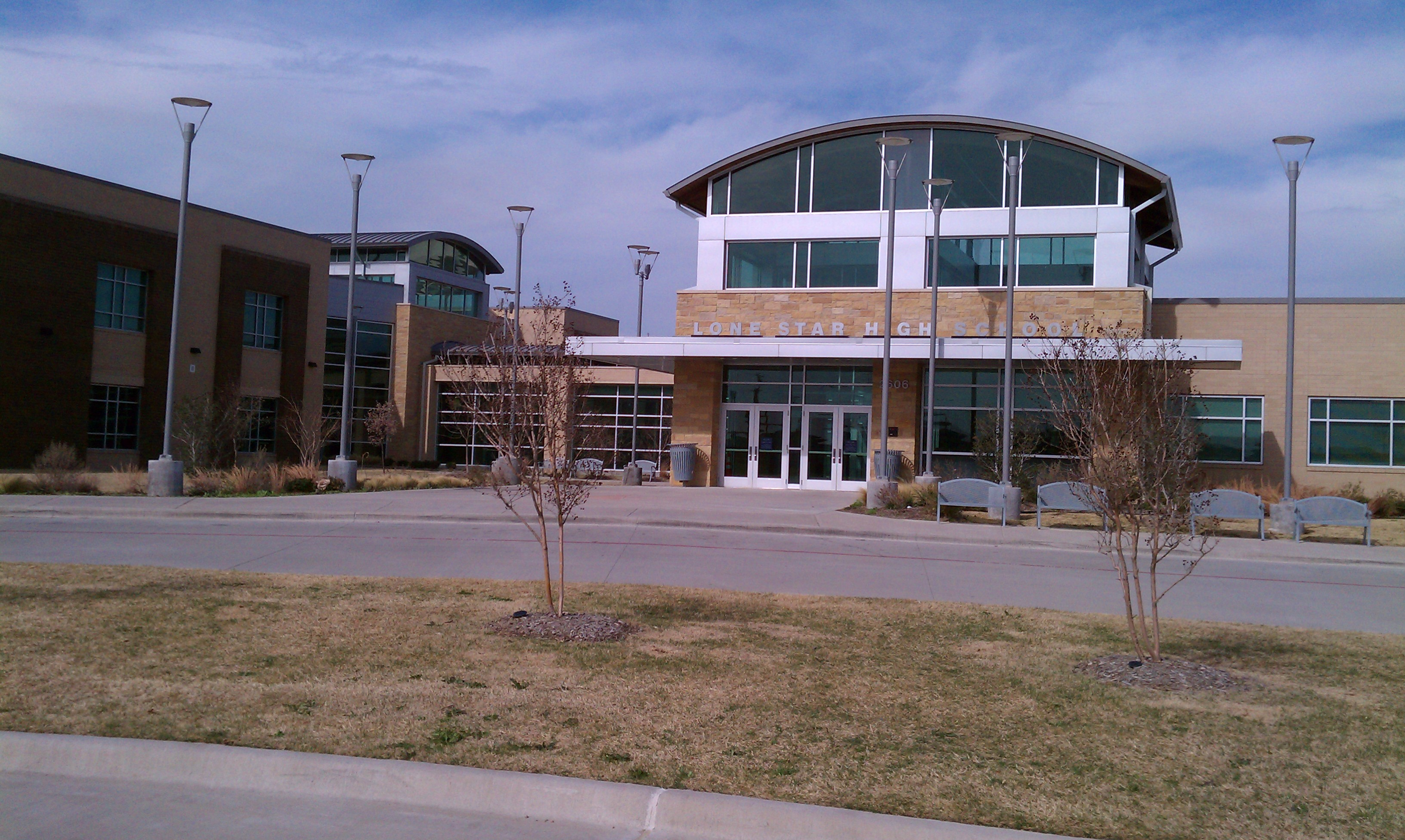 Frisco Lone Star High